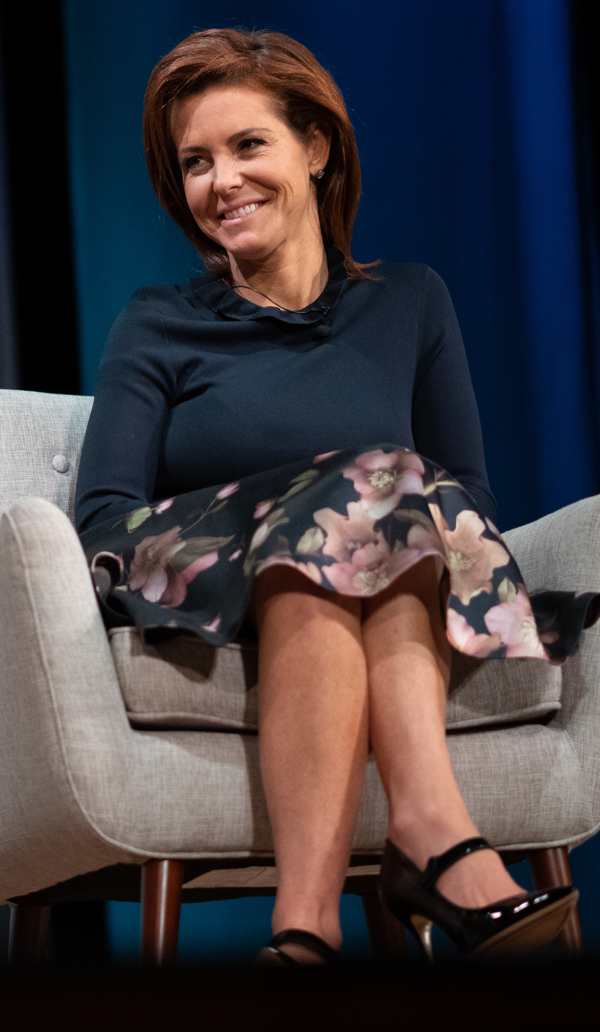 Chip Bergh and Stephanie Ruhle at the Fast Company Innovation Festival